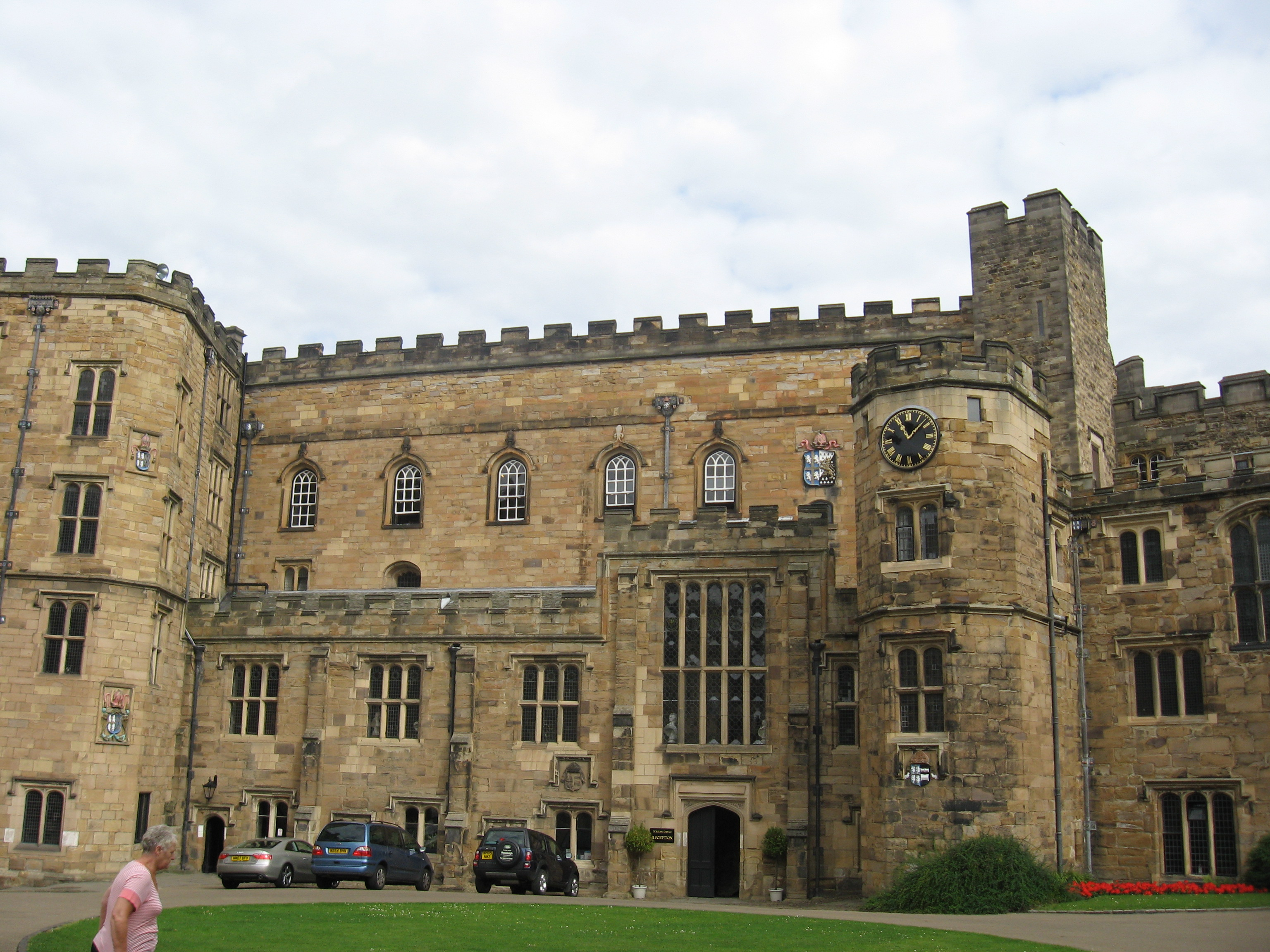 Durham Castle-Normann gallery